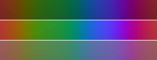 Alle hues in three bands: the upper band in lower intensity and the lower in lower saturation